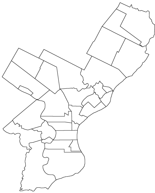 Map of Philadelphia County, Pennsylvania showing the border of municipalities prior to the Act of Consolidation, 1854